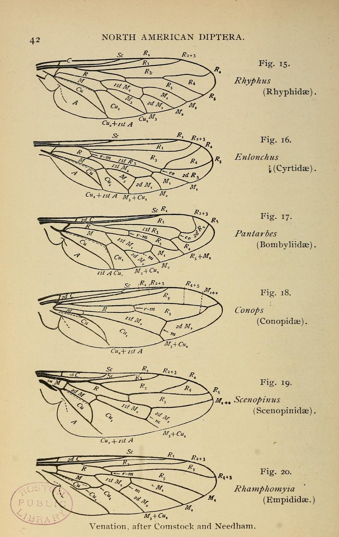 Williston, Samuel Wendell Manual of North American Diptera New Haven :J. T. Hathaway,1908.Third Edition Wing Venation figures15-20 Rhyphidae synonym for Anisopodidae Cyrtidae synonym for Acroceridae Bombyliidae Conopidae Scenopinidae Empididae